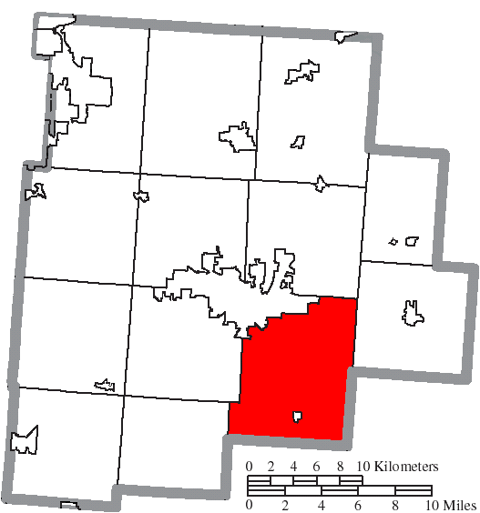 Map of the municipal and township boundaries of Fairfield County, Ohio, United States, as of the 2000 census, with the location of Berne Township highlighted. Township borders are shown only in unincorporated areas in order to differentiate incorporated and unincorporated areas more clearly.